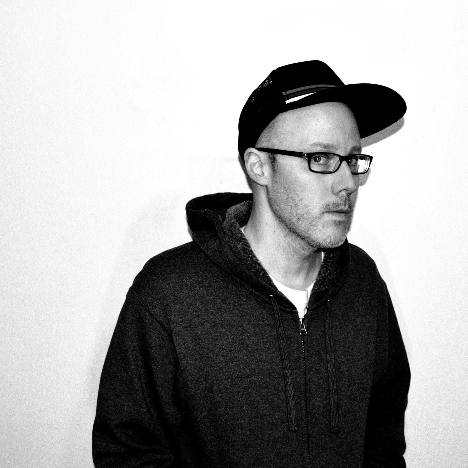 Photograph of electronic pop artist Jonah Cordy aka Kites With Lights